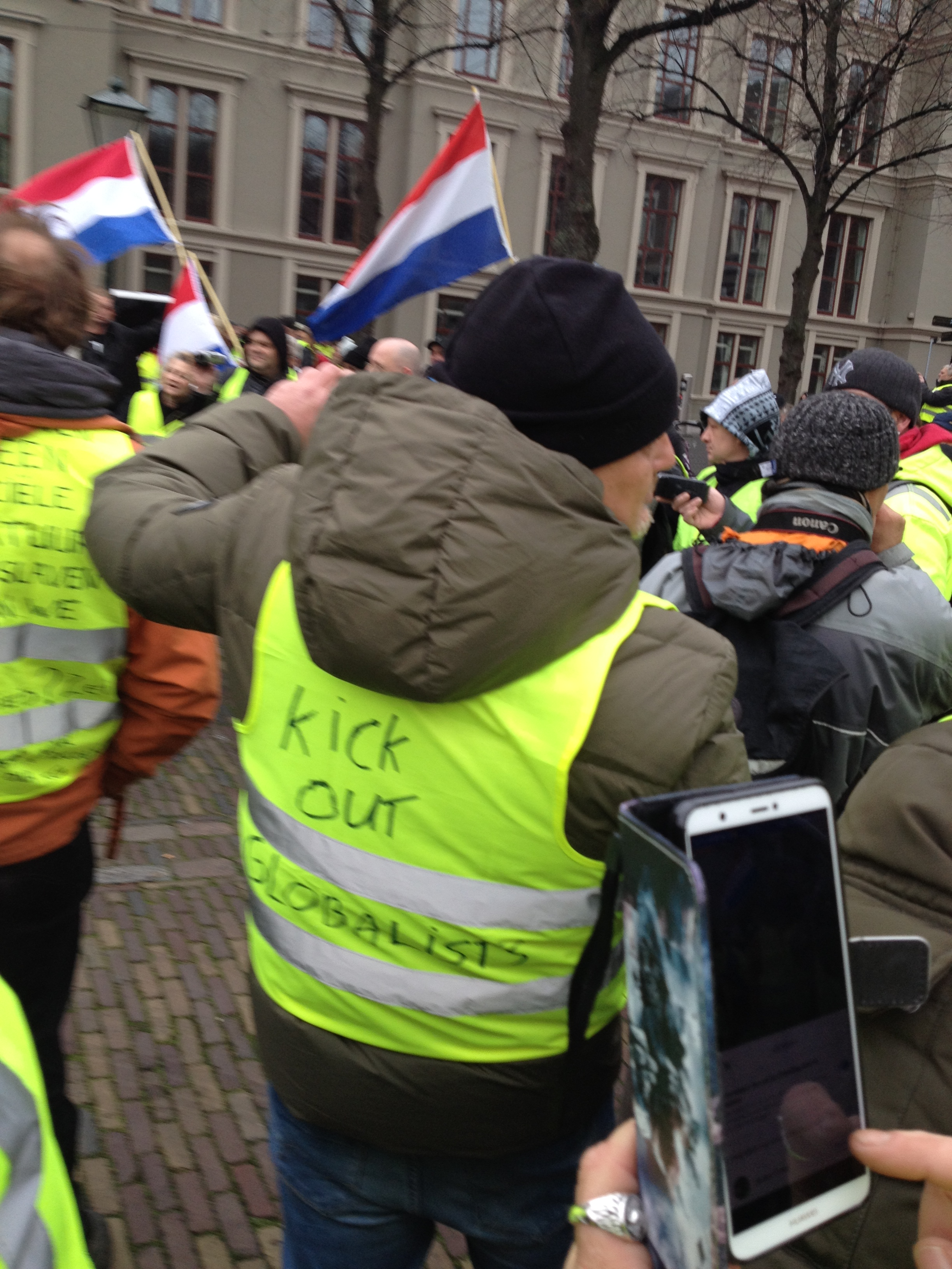 Kick Out Globalists Yellow Vest The Hague 29th of December 2018